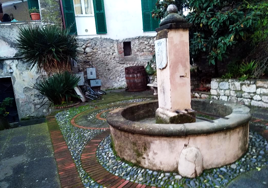 Bevera (Ventimiglia, Italy): piazza Fontana